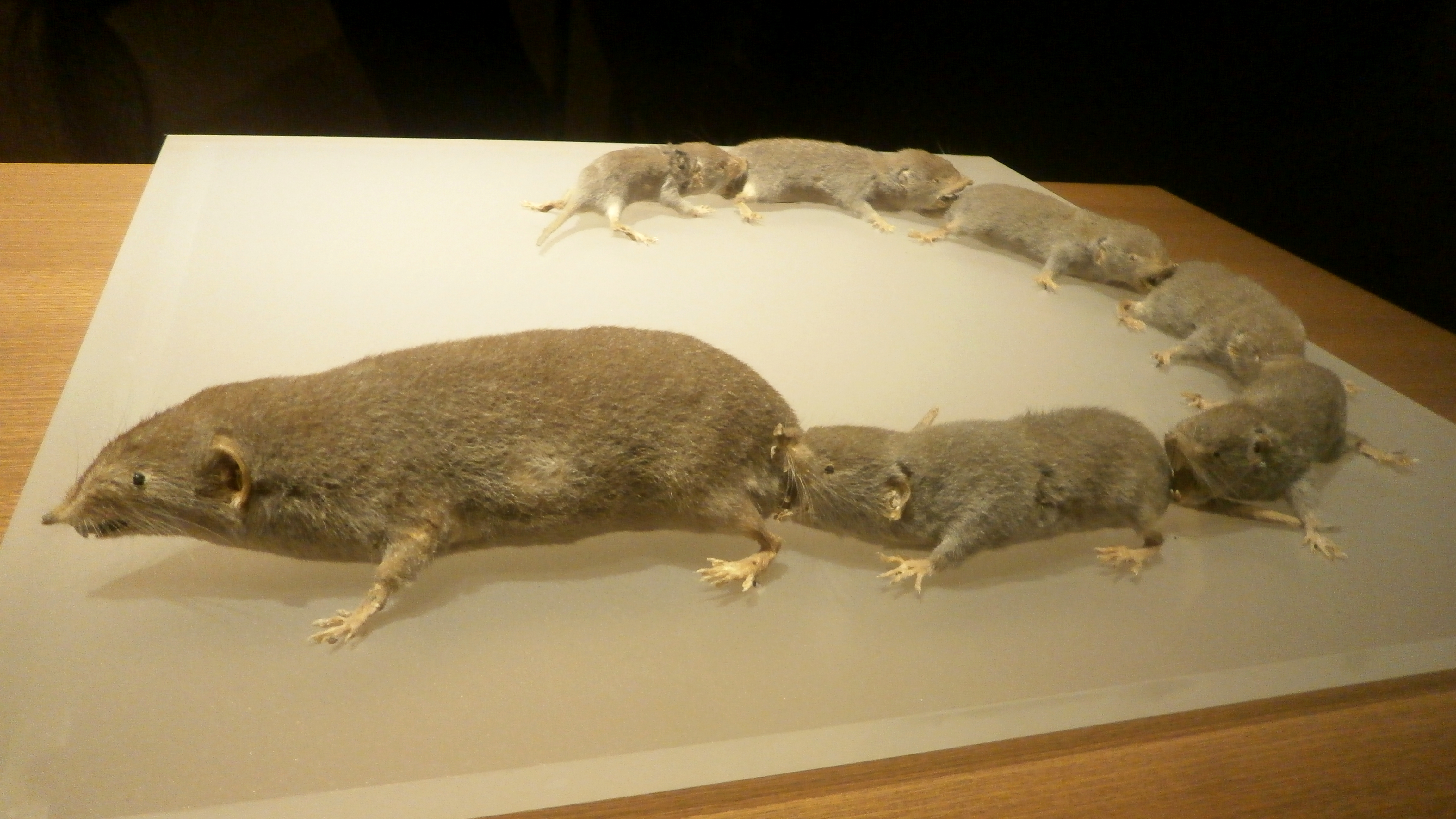 Stuffed specimen of Suncus murinus (Asian house shrew, House musk shrew). Exhibit in the National Museum of Nature and Science, Tokyo, Japan.